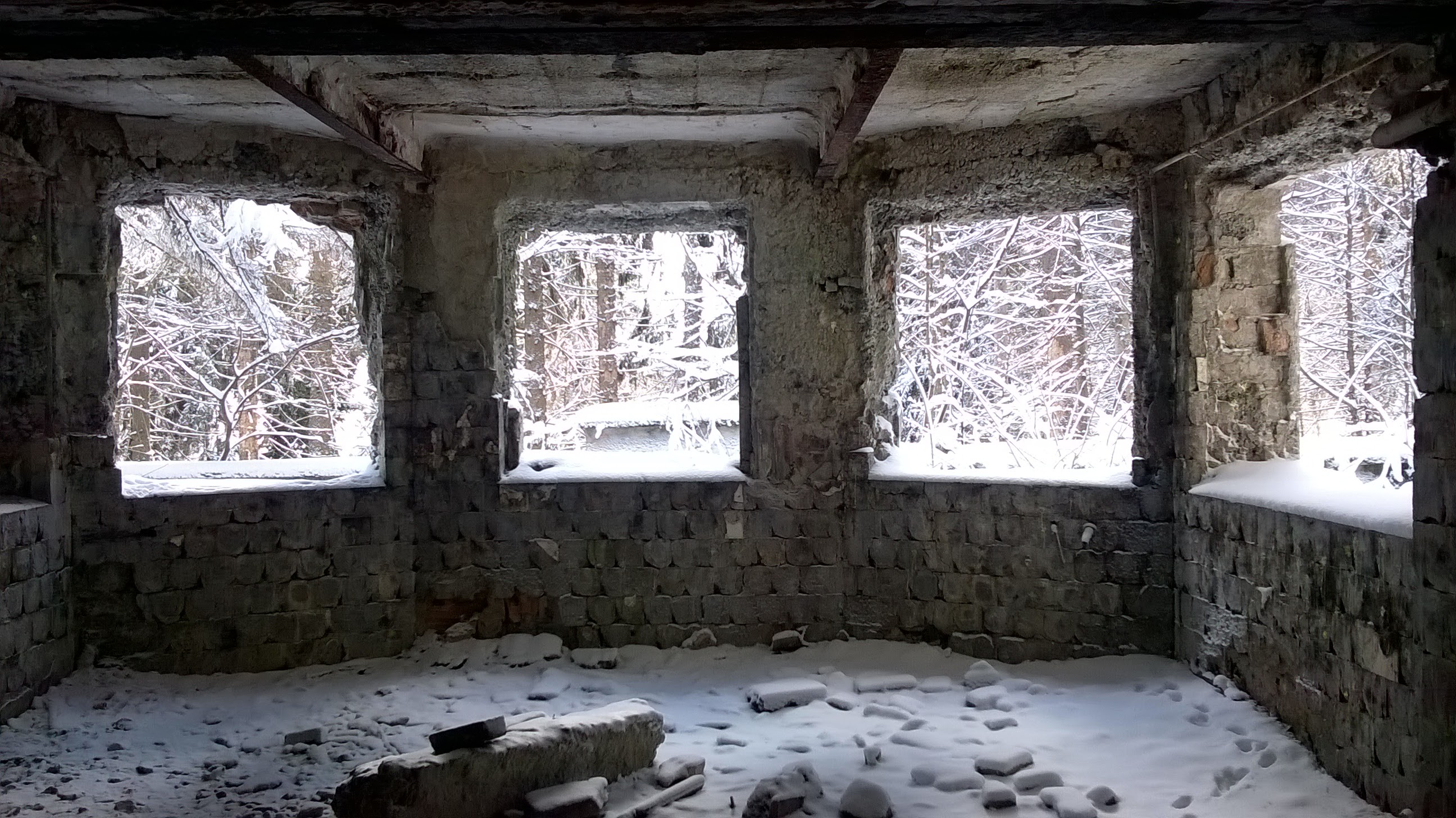 Brestovac hospital at Medvednica